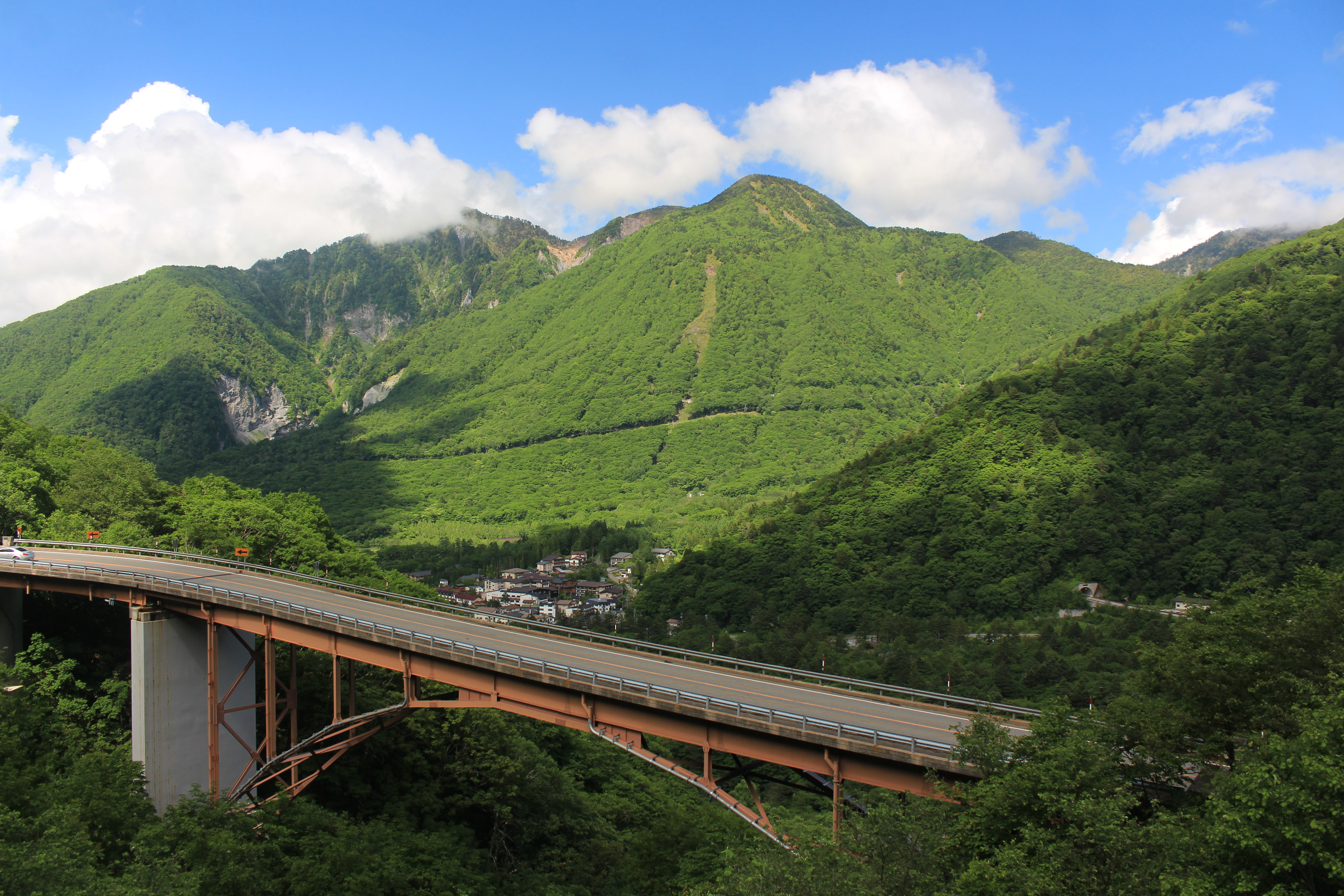 Mount Akandana seen from around Hirayu Pass in Takayama, Gifu pretecture, Japan.